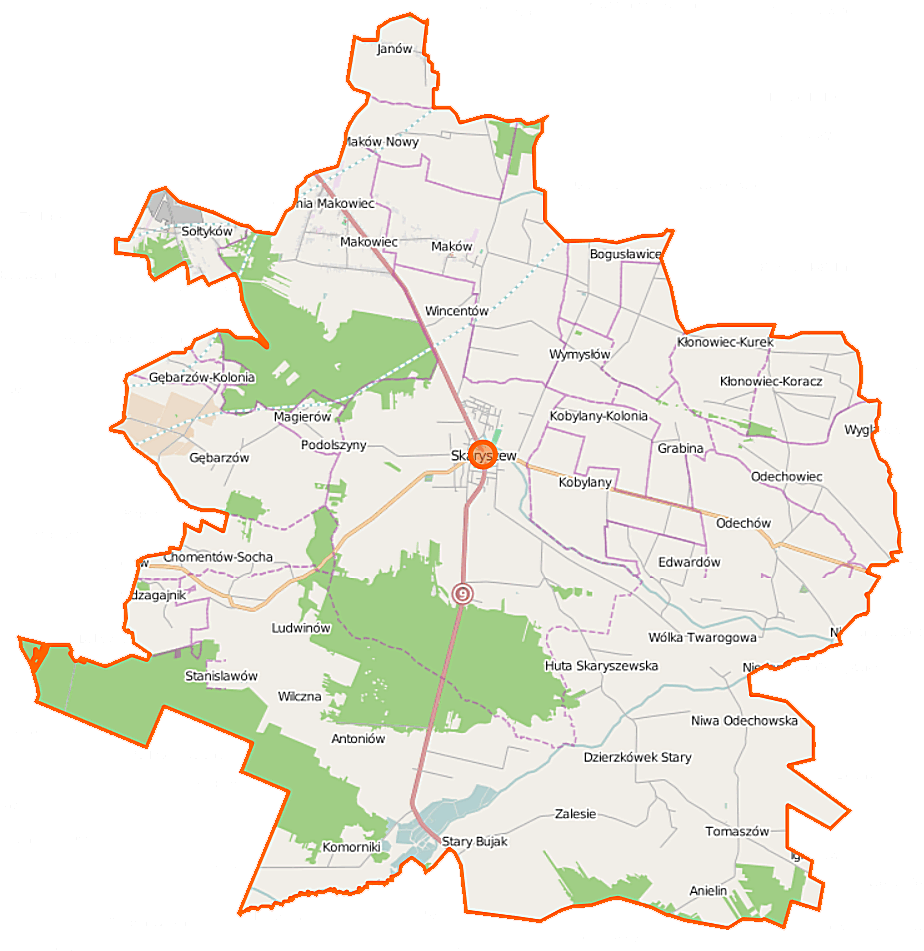 Map of Gmina Skaryszew, Poland This map of Skaryszew (gmina) was created from OpenStreetMap project data, collected by the community. This map may be incomplete, and may contain errors. Don't rely solely on it for navigation. Border coordinates51.388721.1202←↕→21.373651.2252